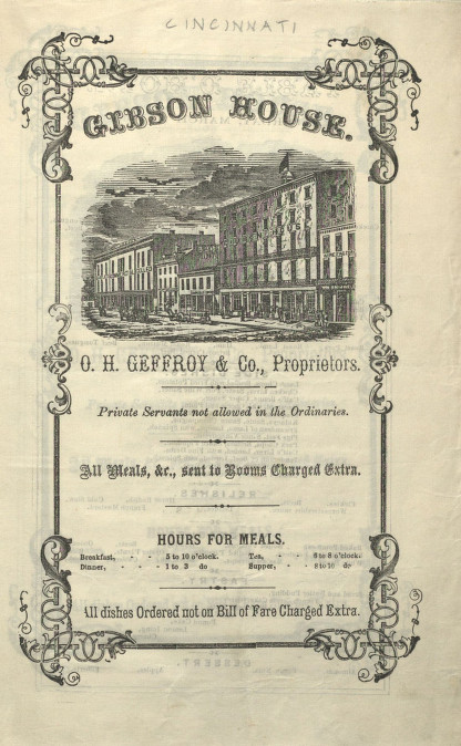 Menus from hotels, restaurants, and steamboats in the 1850s and 60s. The name O. H. Geffroy & Co., Proprietors, is prominently displayed on the title page of this menu.